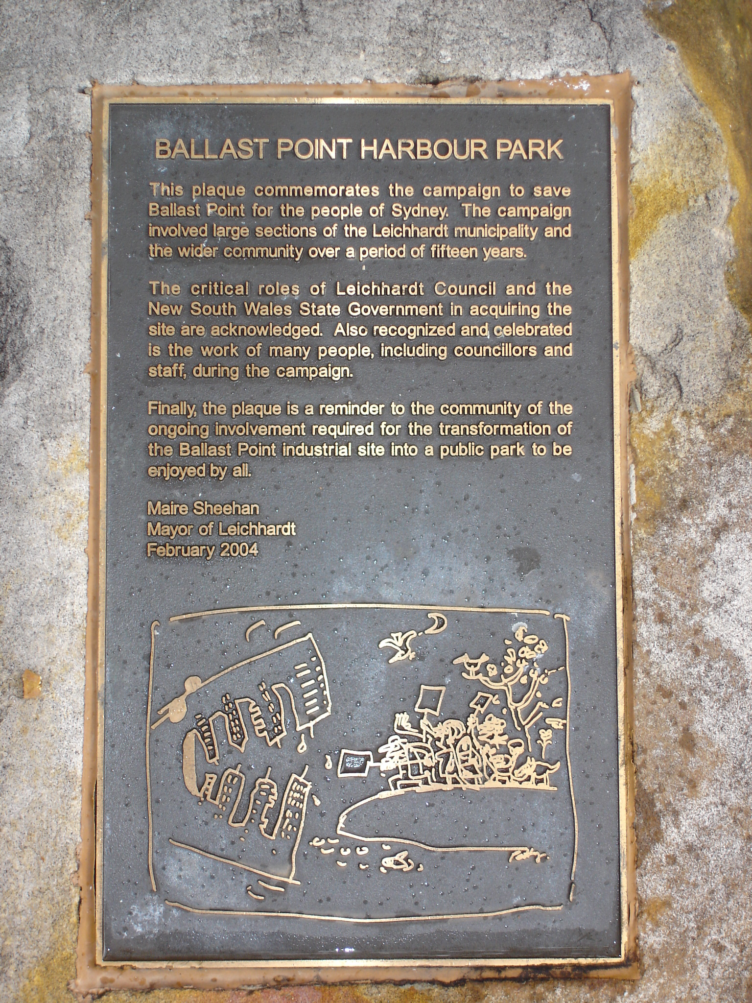 Ballast Point, Birchgrove, New South Wales, Australia. Taken by user Amitch on 11/6/06.